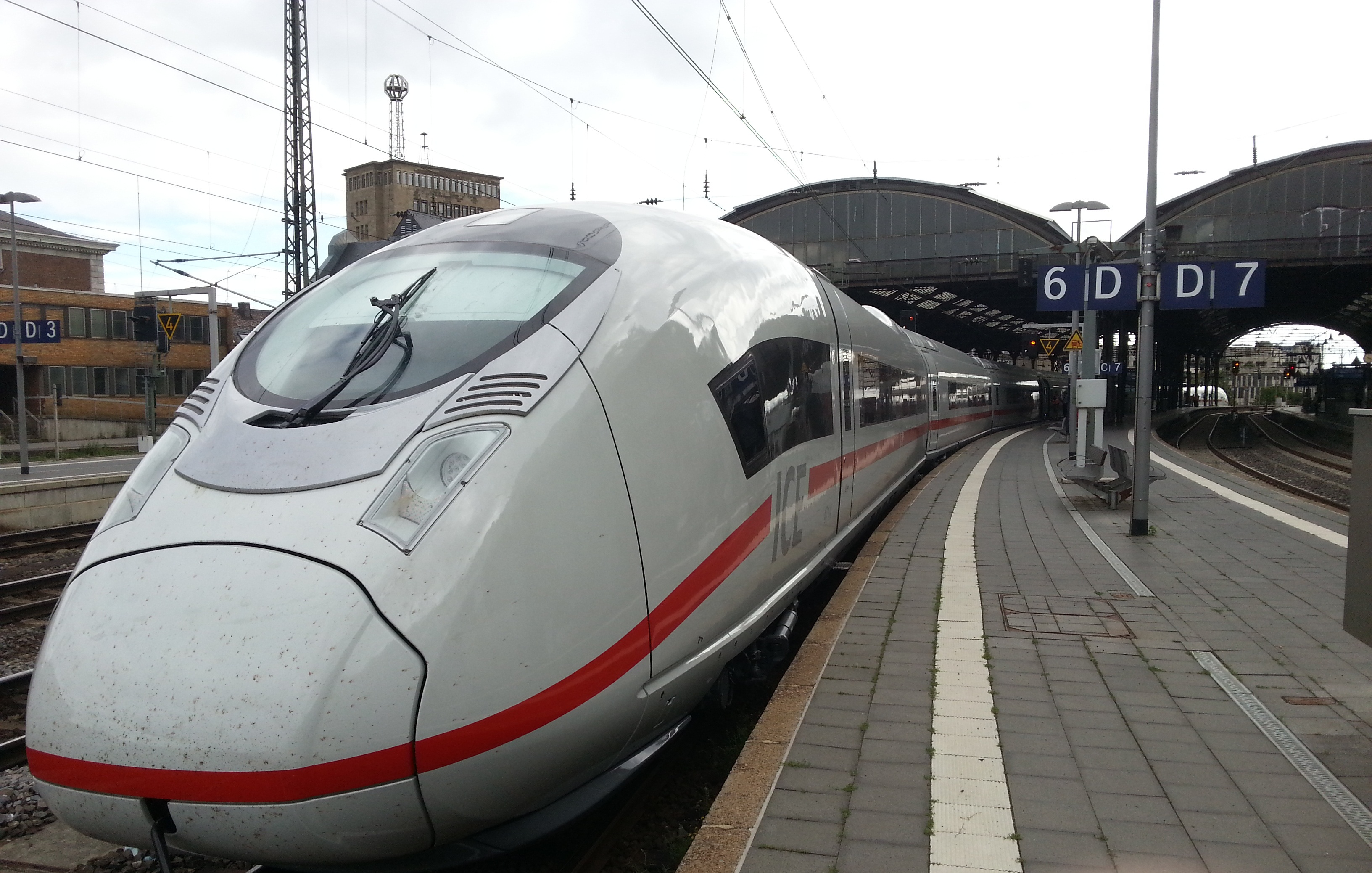 Aachen Central Station with Velaro D at platform 6